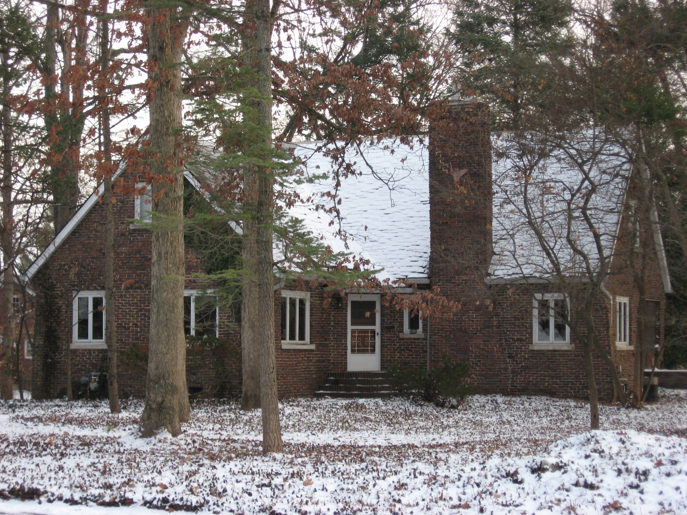 Front of the Kinsey House, located at 1320 E. First Street in Bloomington, Indiana, United States. Built in 1926 and the home of Alfred Kinsey, it is a part of the Vinegar Hill Historic District, a historic district that is listed on the National Register of Historic Places.